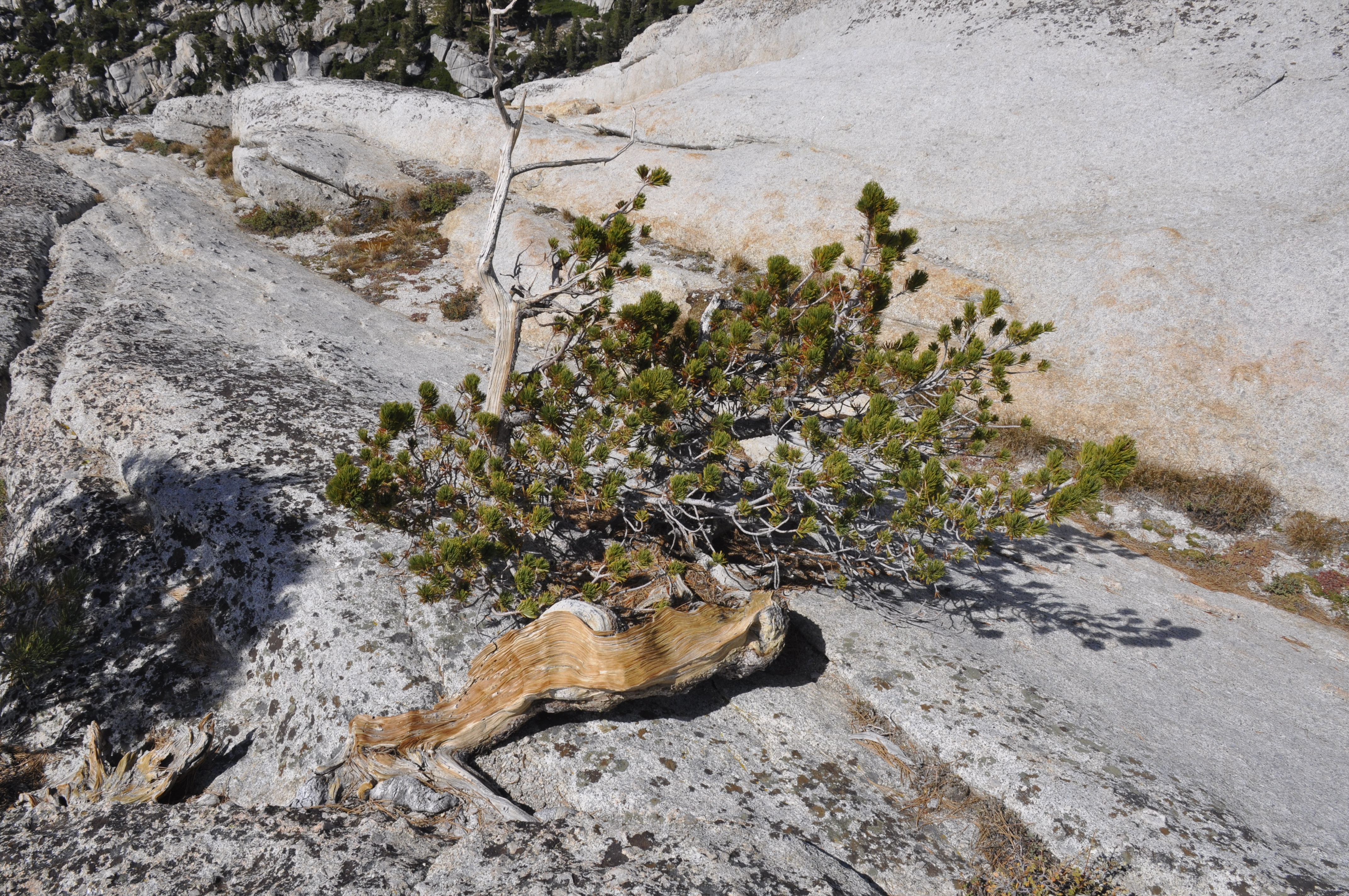 Whitebark pine Pinus albicaulis is the only type of tree on the summit of Pywiack Dome in the Tuolumne Meadows section of Yosemite National Park.